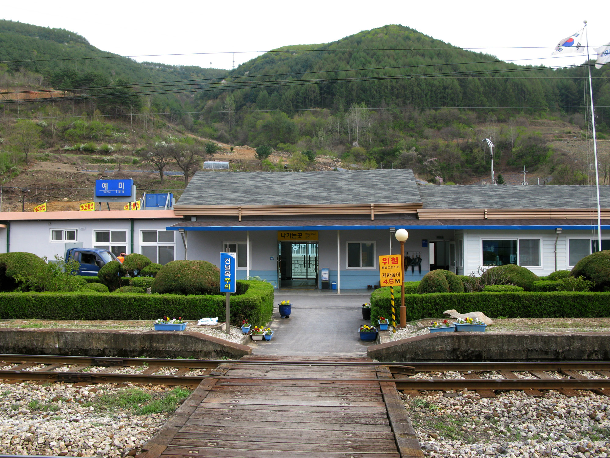 Taebaek, Hambaek Line Yemi Station